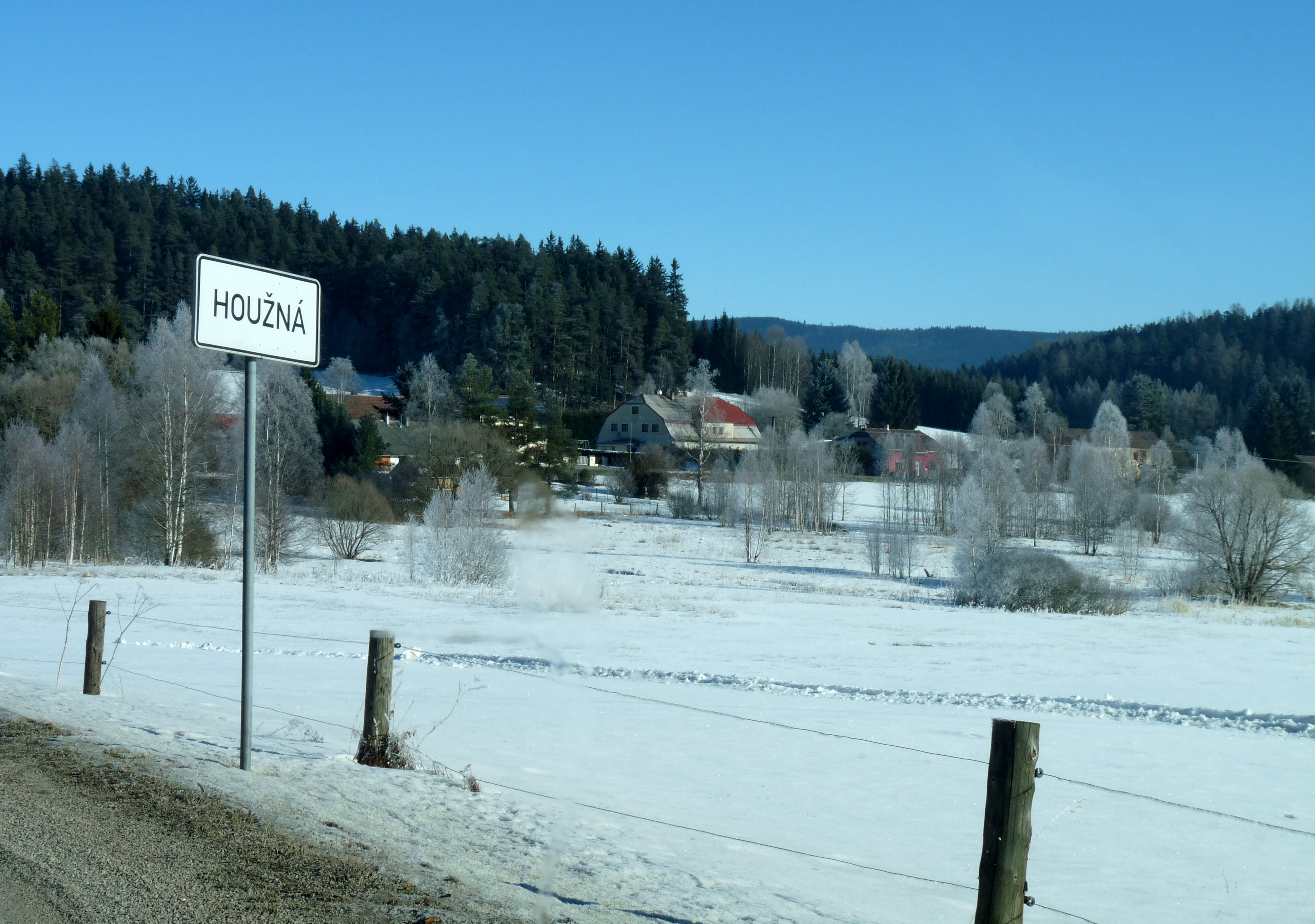 Beginning of the village of Houžná, part of the municipality of Lenora, Prachatice District, South Bohemian Region, Czech Republic.